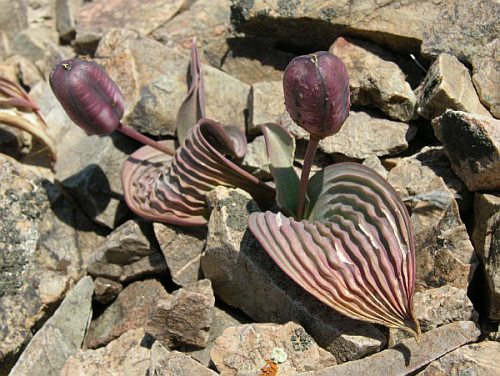 Tulipa regelii in the Khantau Mts